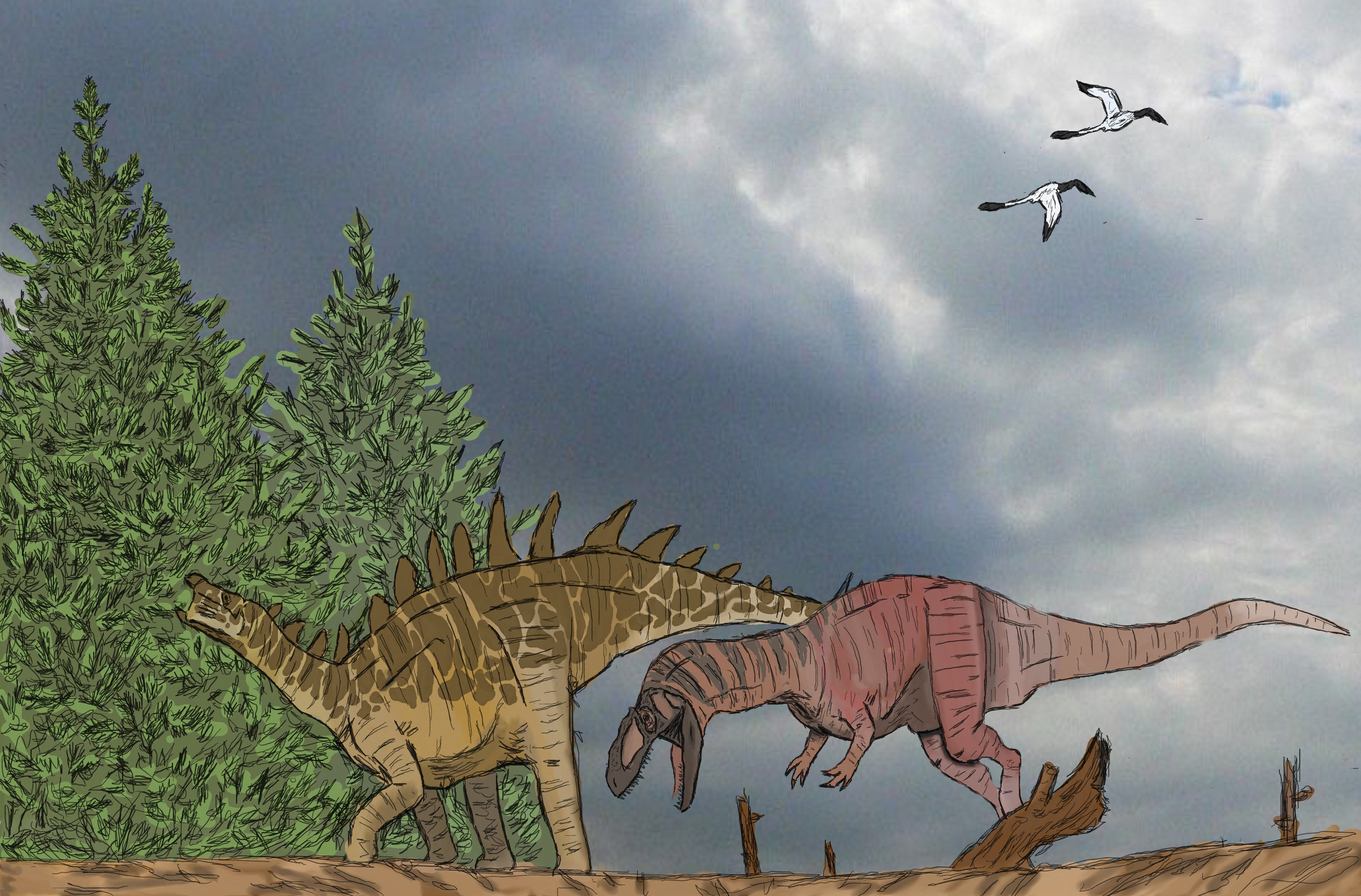 Chinese dinosaurs from the Late Jurassic. The theropod Yangchuanosaurus, a predator about 11 meters long, attacking the stegosaur Tuojiangosaurus. Flying are two unidentified pterosaurs